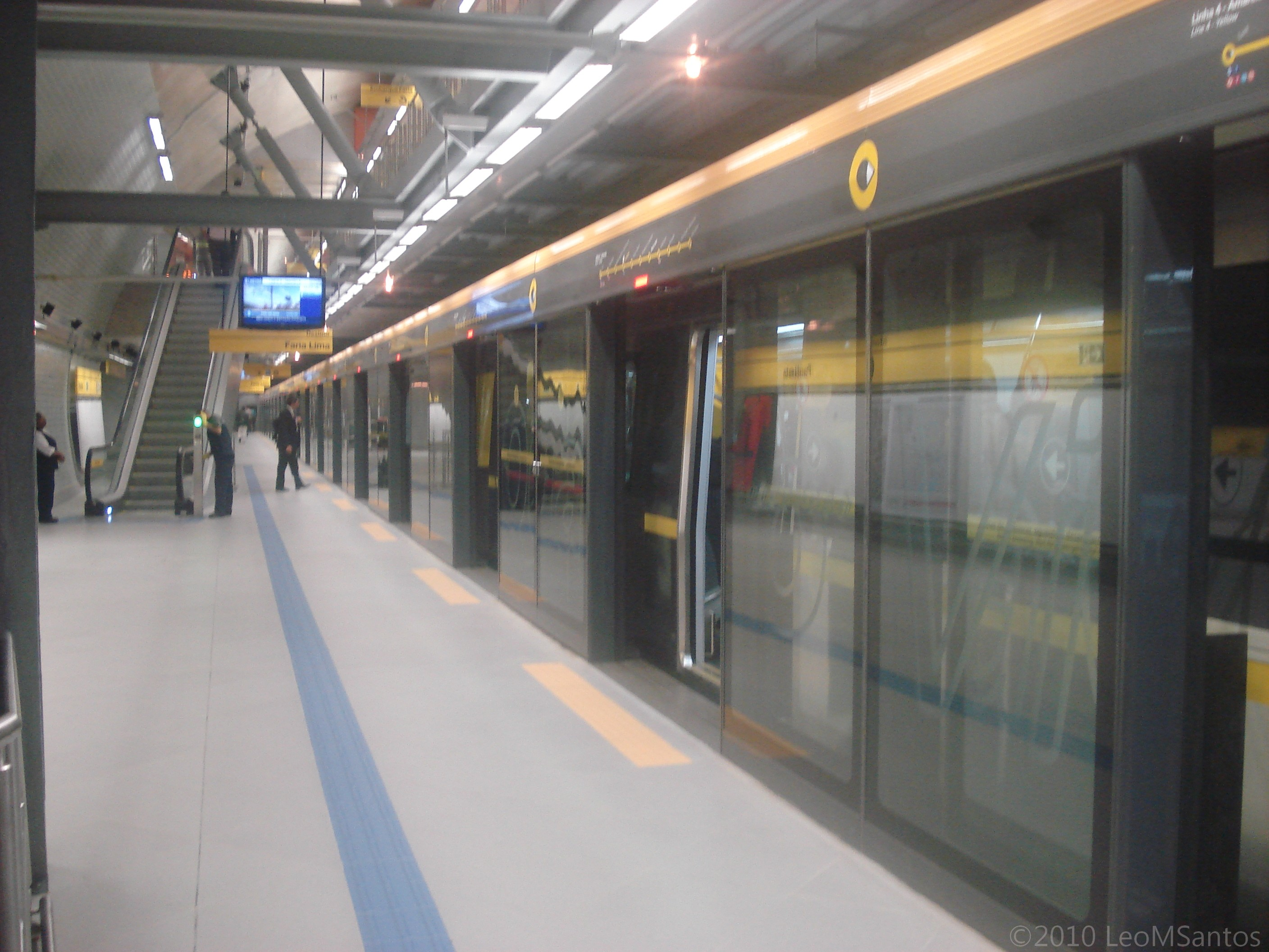 Platform Doors in Paulista Station of Line 4 - Yellow of São Paulo Metro.